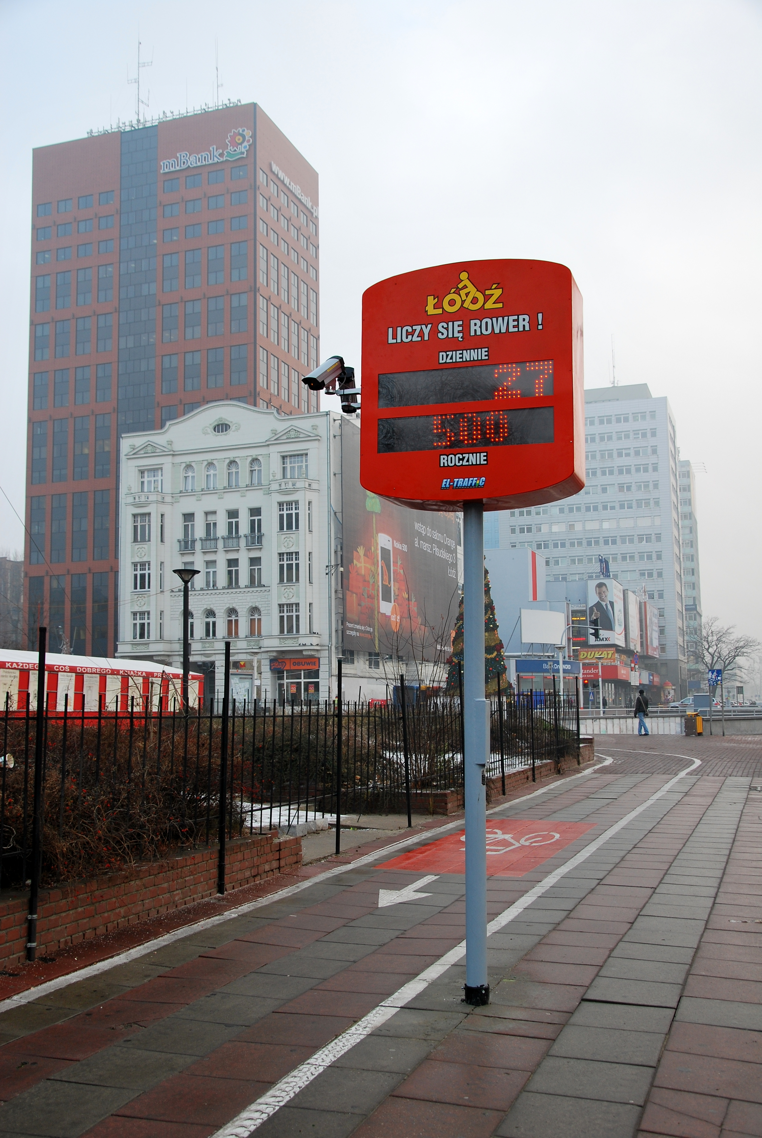 Cycle counter, Łódź Mickiewicza Av. 2011